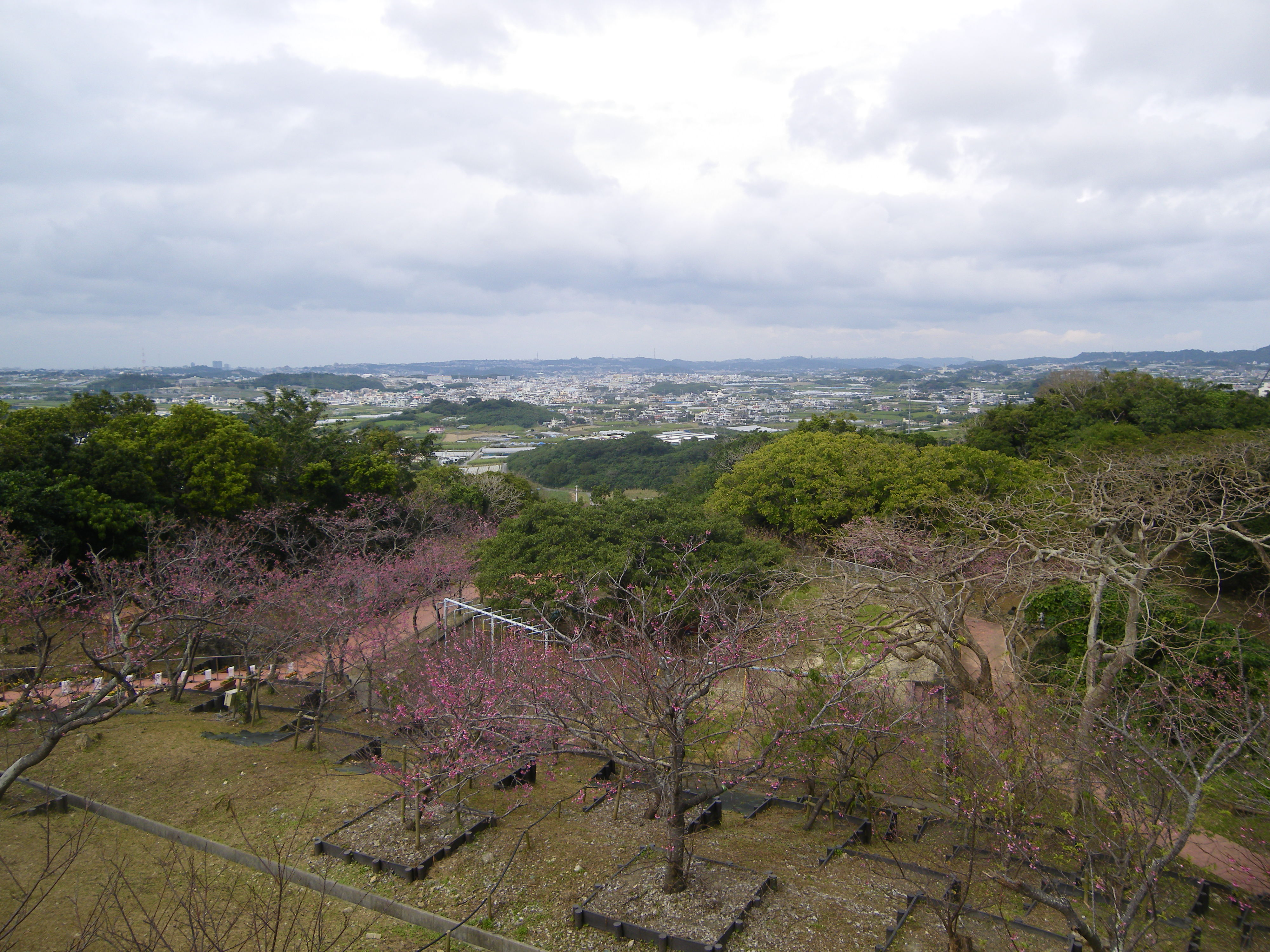 Sakura at Mount Yaese, Okinawa Prefecture, Japan